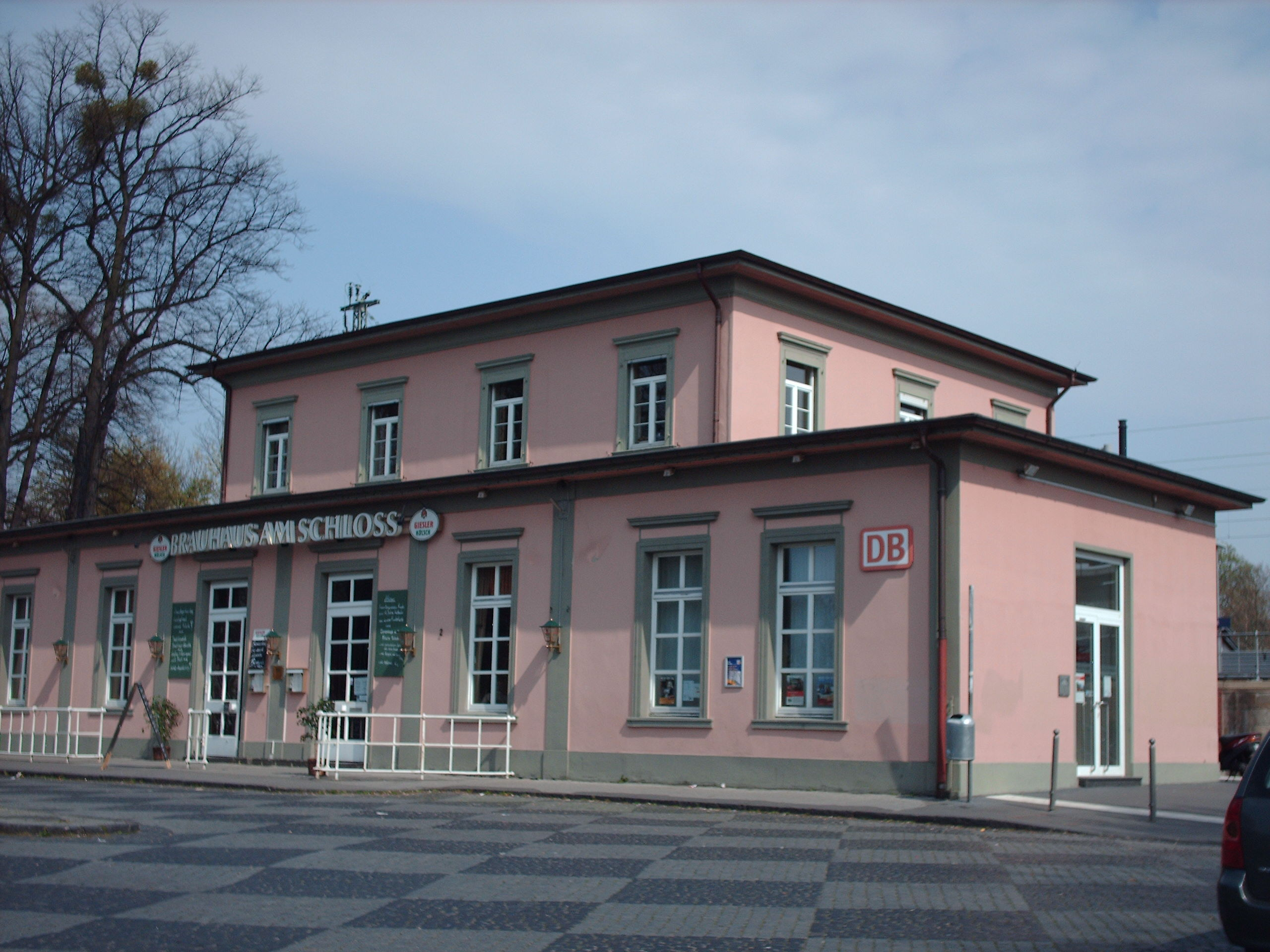 Train station, Brühl, Germany check usage